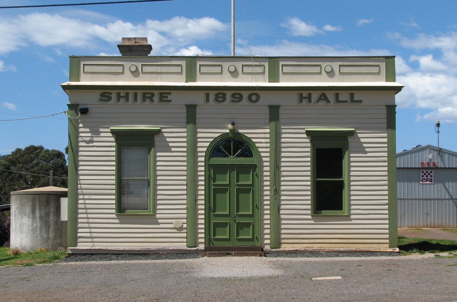 Glenlyon Shire Hall, Glenlyon, Victoria, Australia